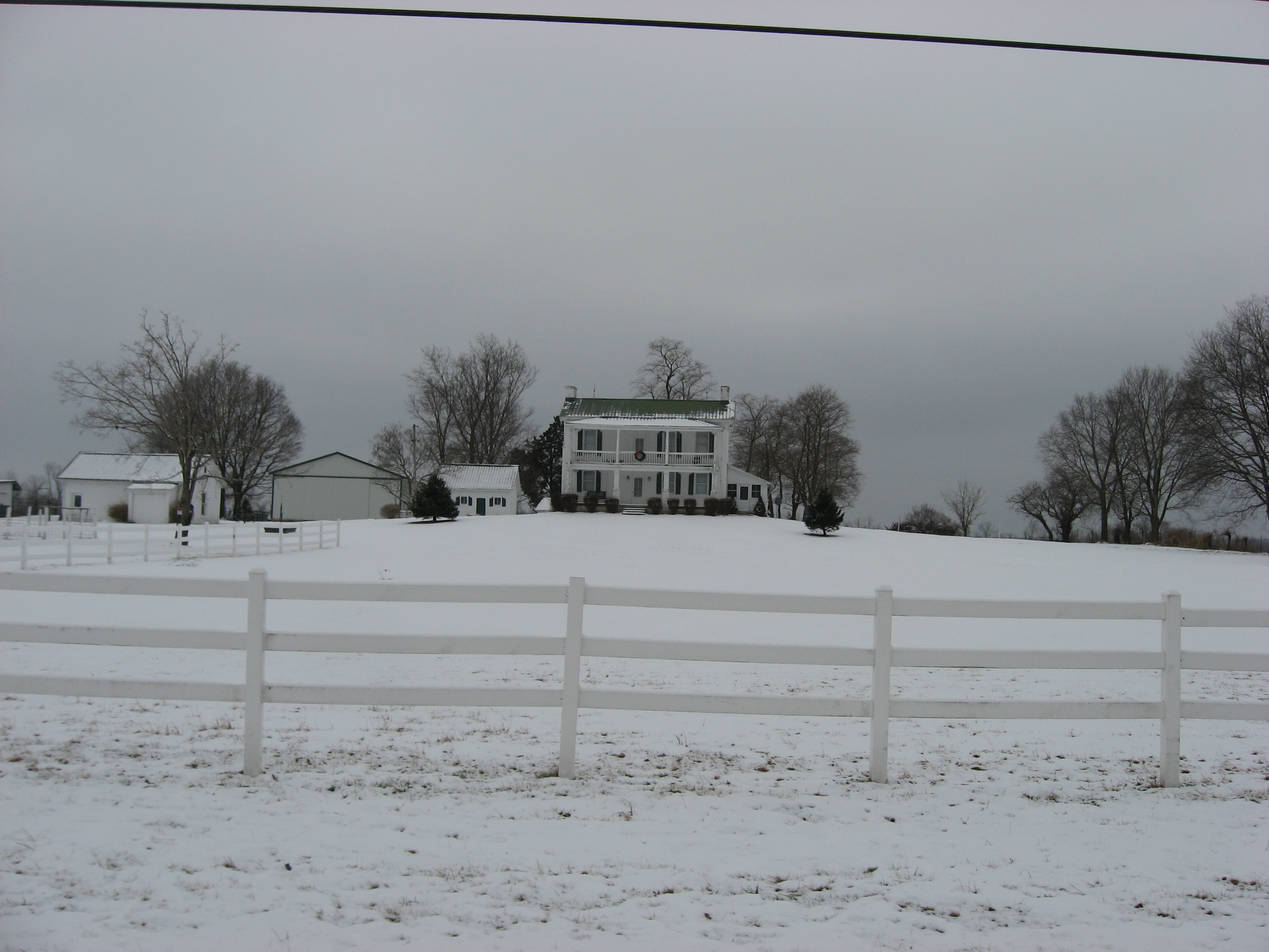 Fields and the farmhouse at Cedar Point Farm, located at 8185 E. State Road 252 west of Morgantown in Jackson Township, Morgan County, Indiana, United States. Built in 1853, it is listed on the National Register of Historic Places.